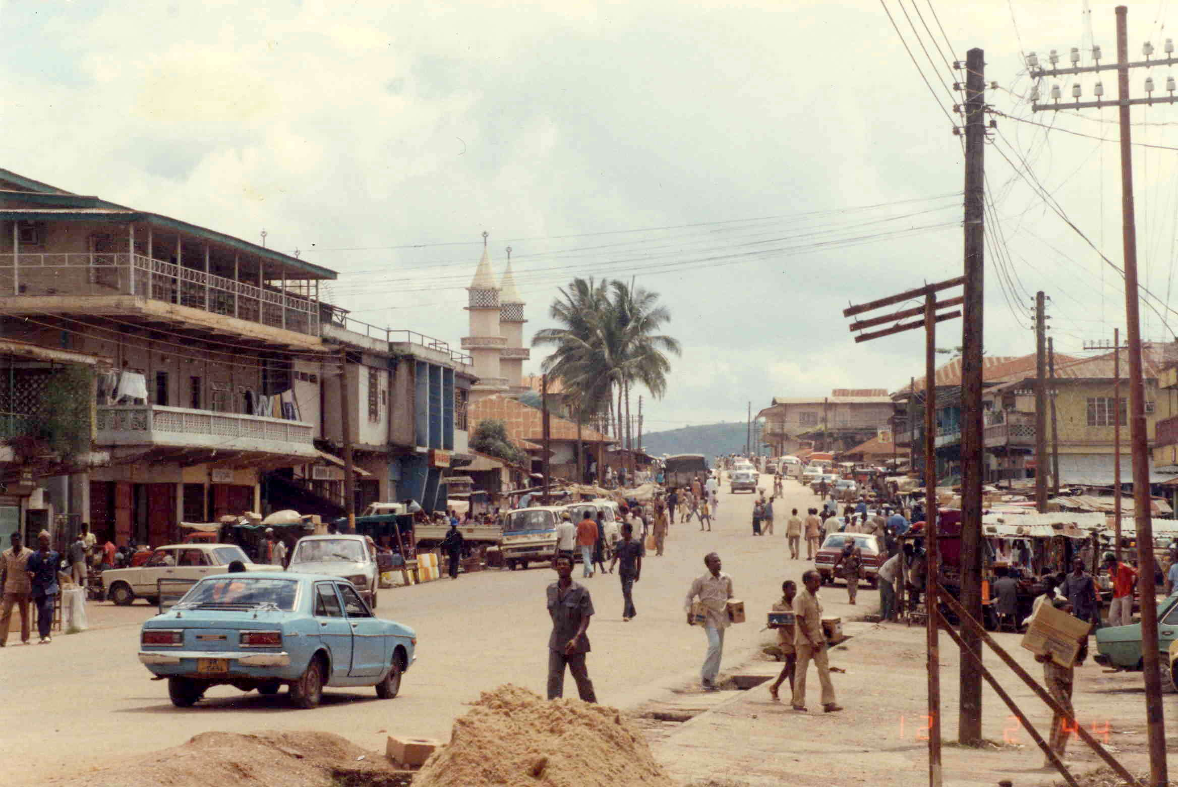 Koidu, Sierra Leone. The main road through the town.